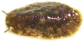 Onchidella nigricans from Eastern Beach, Auckland, New Zealand. This work has been released into the public domain by its author, Graham Bould. This applies worldwide.In some countries this may not be legally possible; if so:Graham Bould grants anyone the right to use this work for any purpose, without any conditions, unless such conditions are required by law.